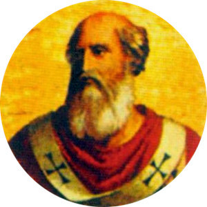 Portait of Pope John II in the Basilica of Saint Paul Outside the Walls, Rome